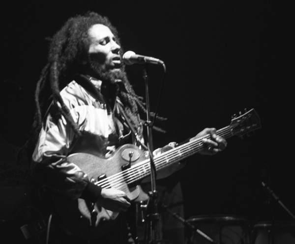 Bob Marley live in concert in Zurich, Switzerland, on May 30, 1980 at the Hallenstadium